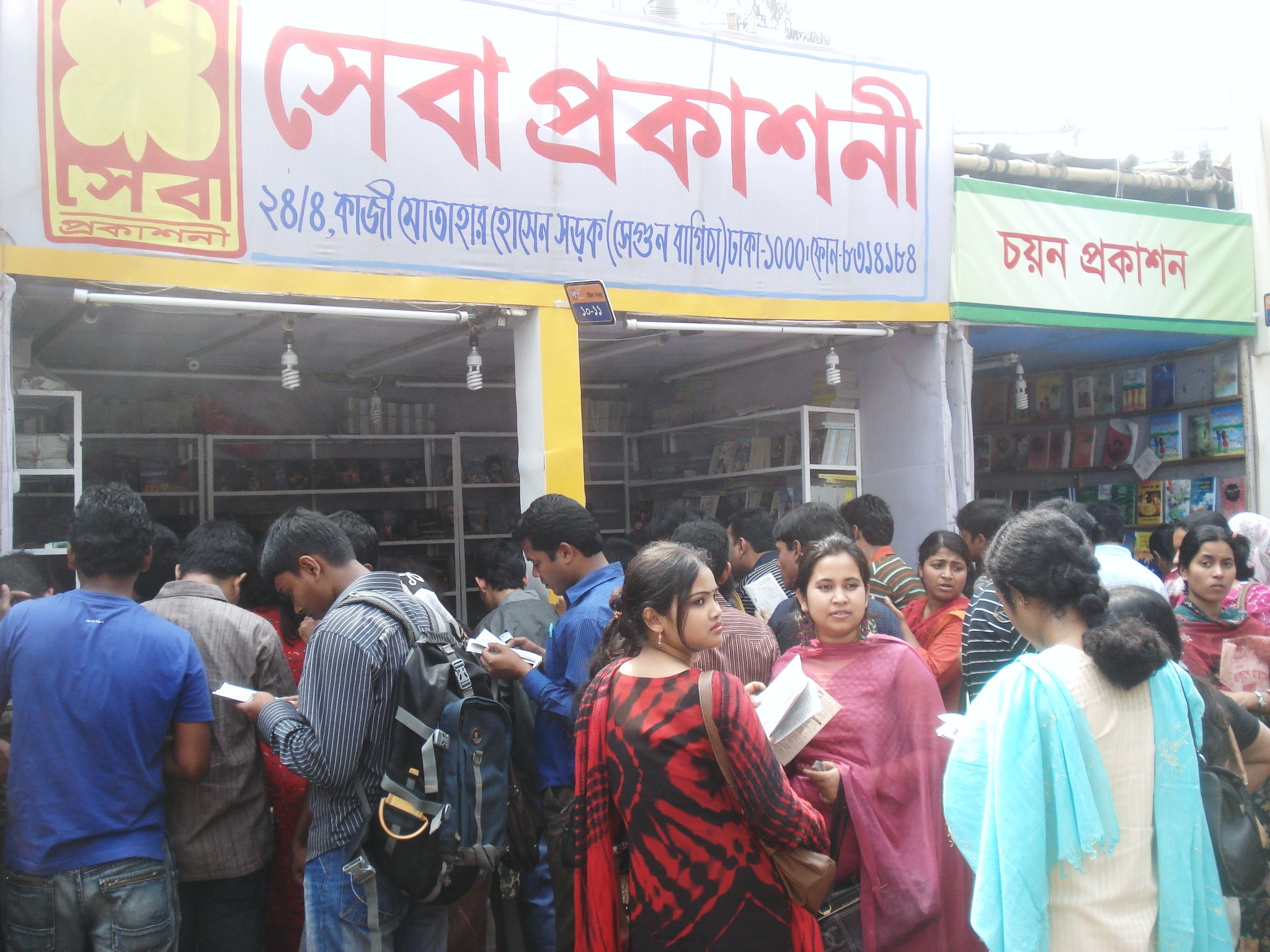 Photo of the Stall of Sheba Prokashoni in Bangla Academy Book Fair of 2010